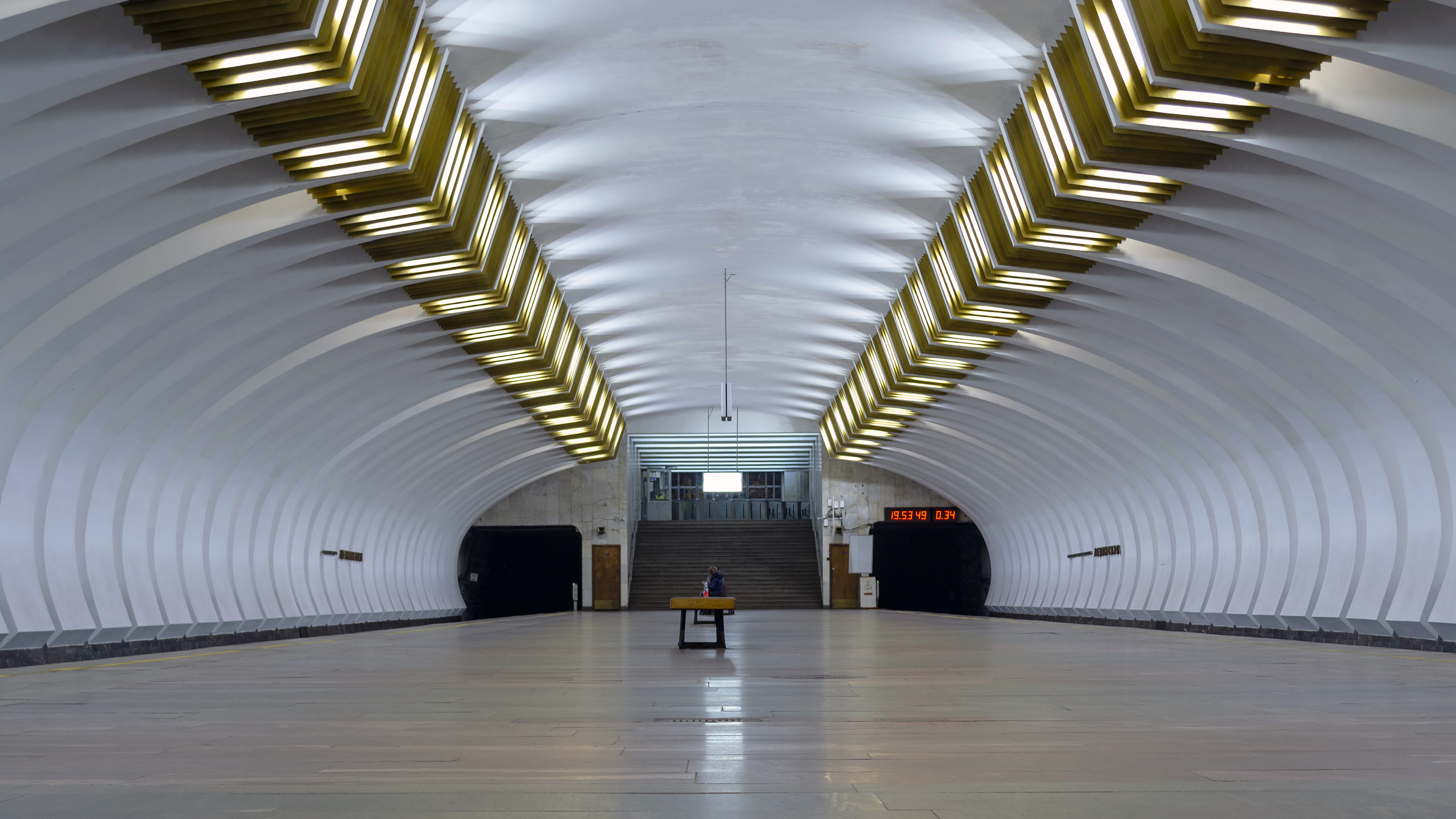 Leninskaya metro station in Nizhny Novgorod, Russia.